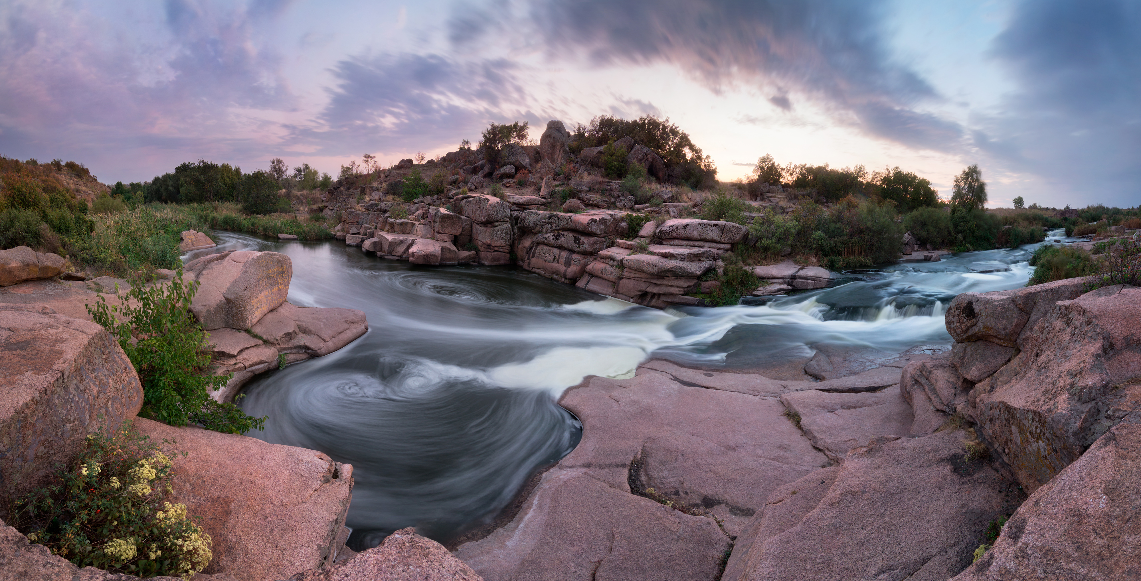 Panorama of Tokivske Waterfall, Kamianske Reserve, Dnipropetrovsk Oblast, Ukraine